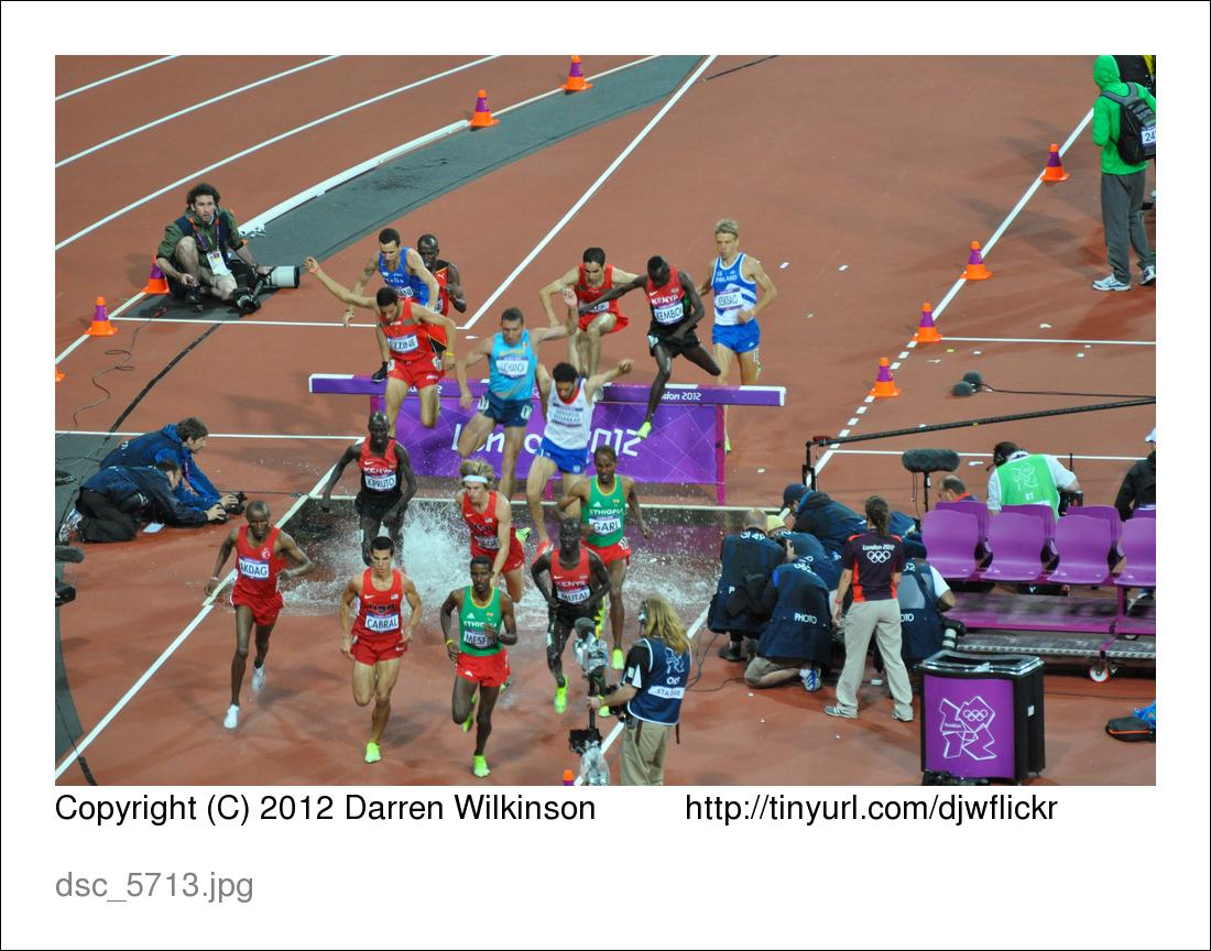 Steeplechase